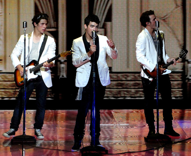 Jonas Brothers Live In Concert and The Cast of Camp Rock 2, September 2nd, 2010.